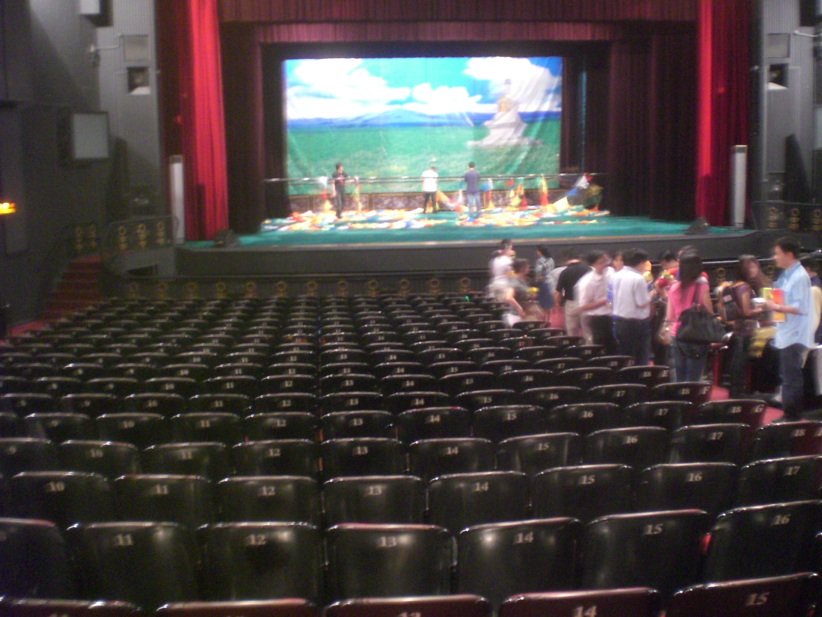 北角新光戲院